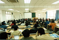 Inside a classroom at Huazhong University of Science and Technology